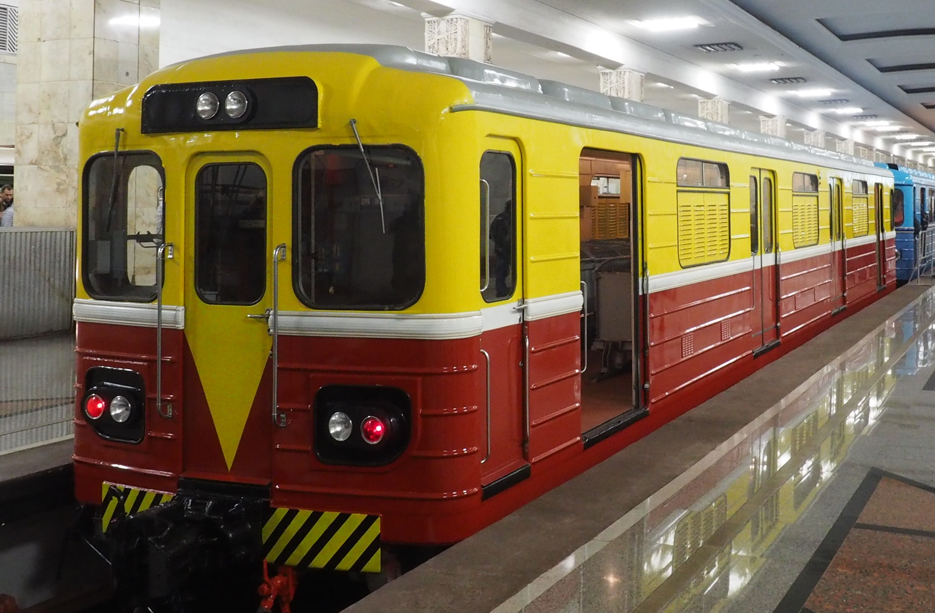 Moscow metro VEKA-001 battery shunter car